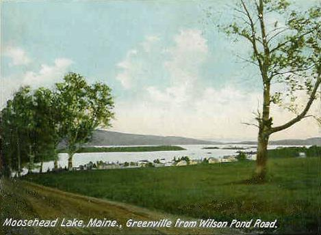 Greenville, Maine from Wilson Pond Road; from a 1907 postcard published by the Hugh C. Leighton Company of Portland, Maine.